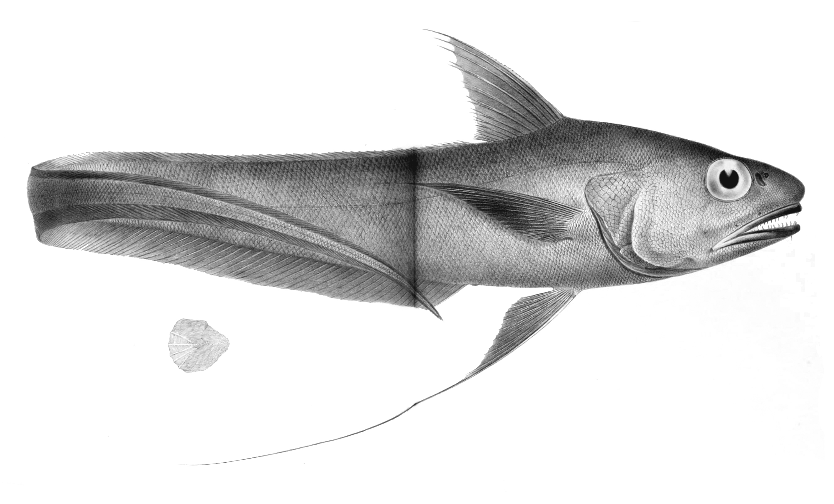 Coryphaenoides longifilis